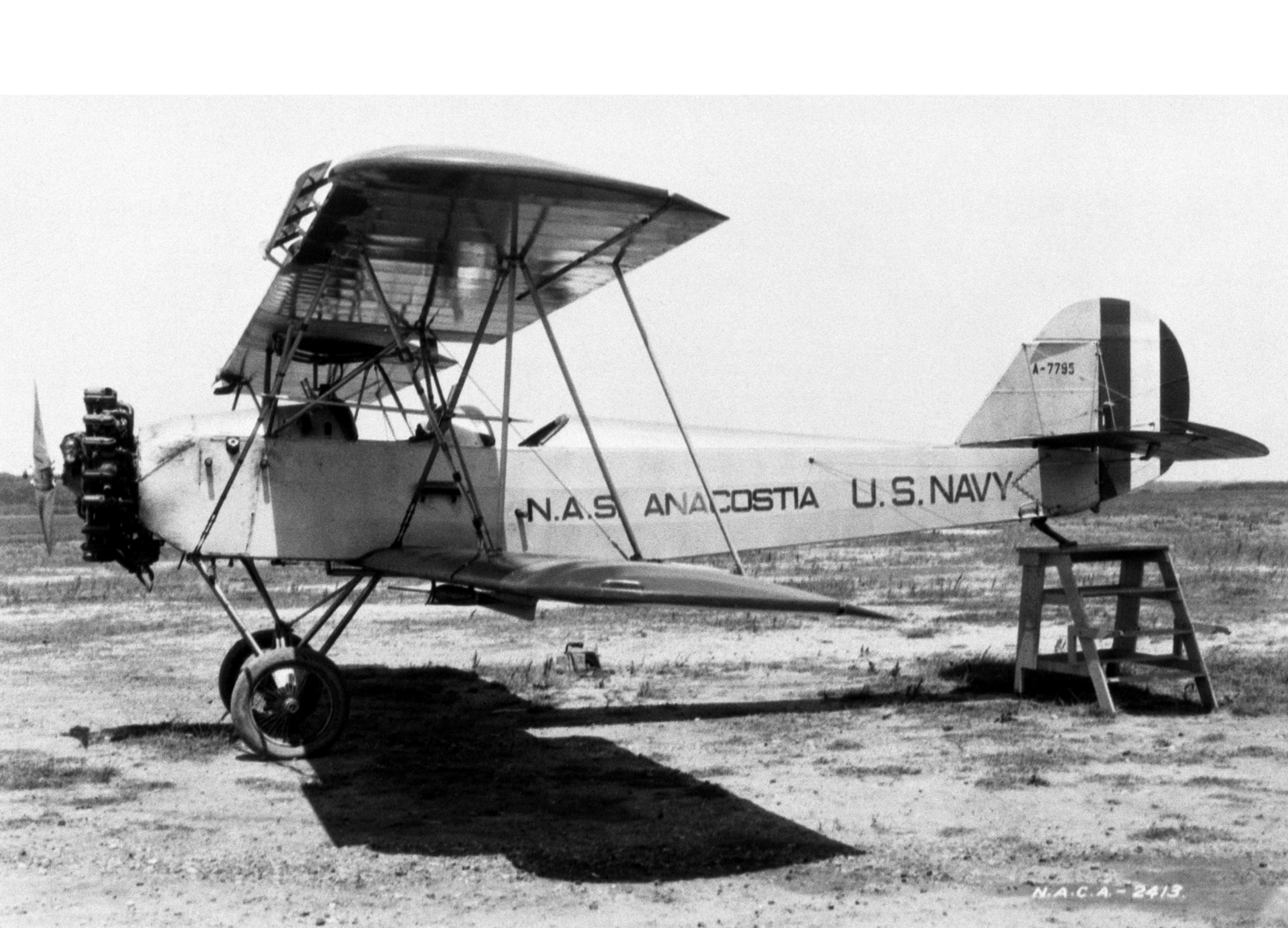 A U.S. Navy Consolidated NY-2 (BuNo A7795) at the National Advisory Committee for Aeronautics, Langley, Virginia (USA), on 5 May 1928: The Consolidated NY series were the first Consolidated aircraft purchased by the U.S. Navy. The NY-2 pictured differed from the NY-1 in having a more powerful engine and a longer span wing. This example also has a NACA-installed leading-edge slats. Stability testing was but one research role performed by this NY-2. (Text: NASA)